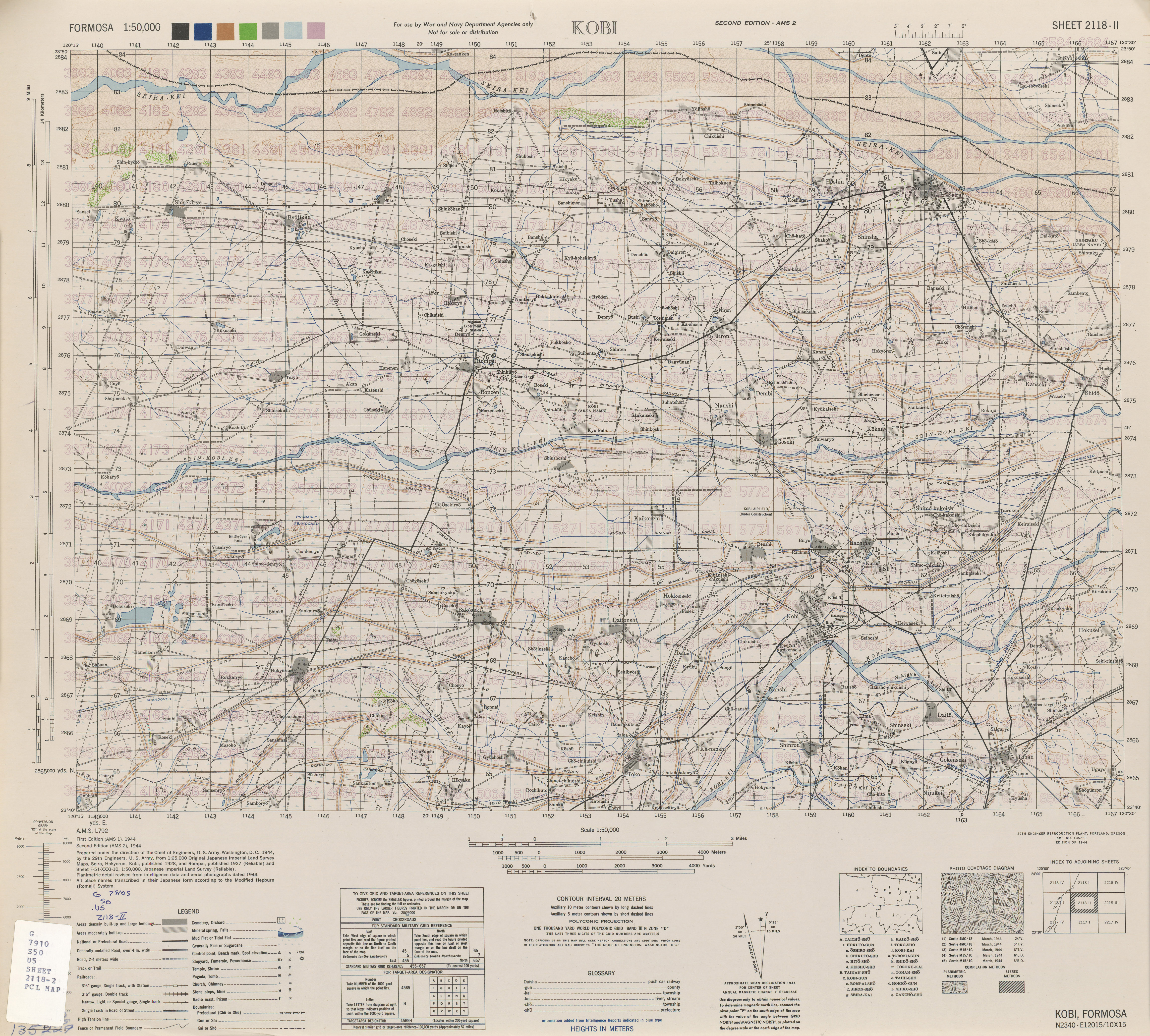 Map of Formosa (Taiwan) 1:50,000 AMS Series L792